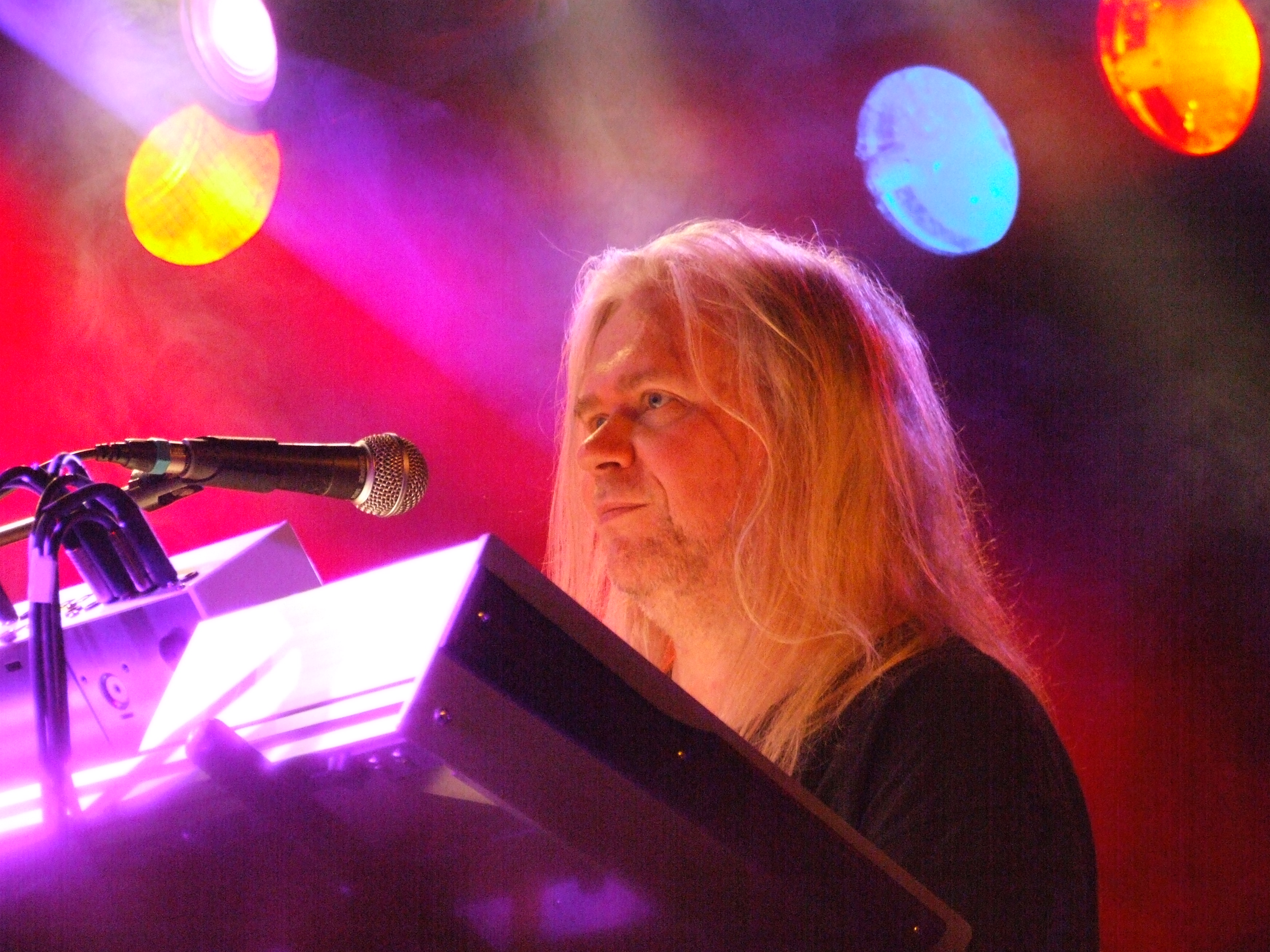 Clive Nolan, Keyboarder of british Prog-Rockband Pendragon, Concert in Aschaffenburg, Music-Club "Colos-Saal" a former cinema